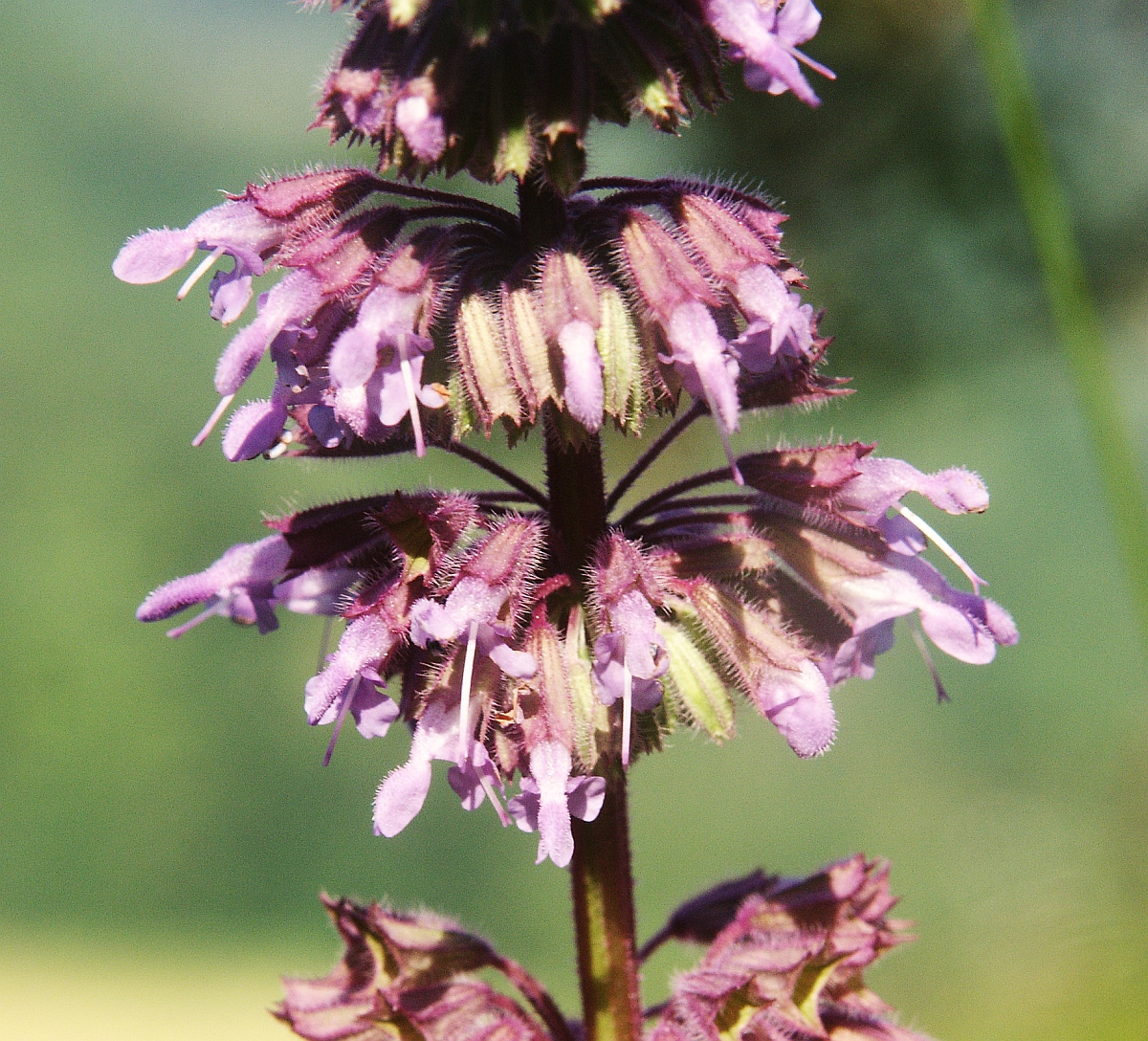 Salvia verticillata, Hohenlohe, Germany